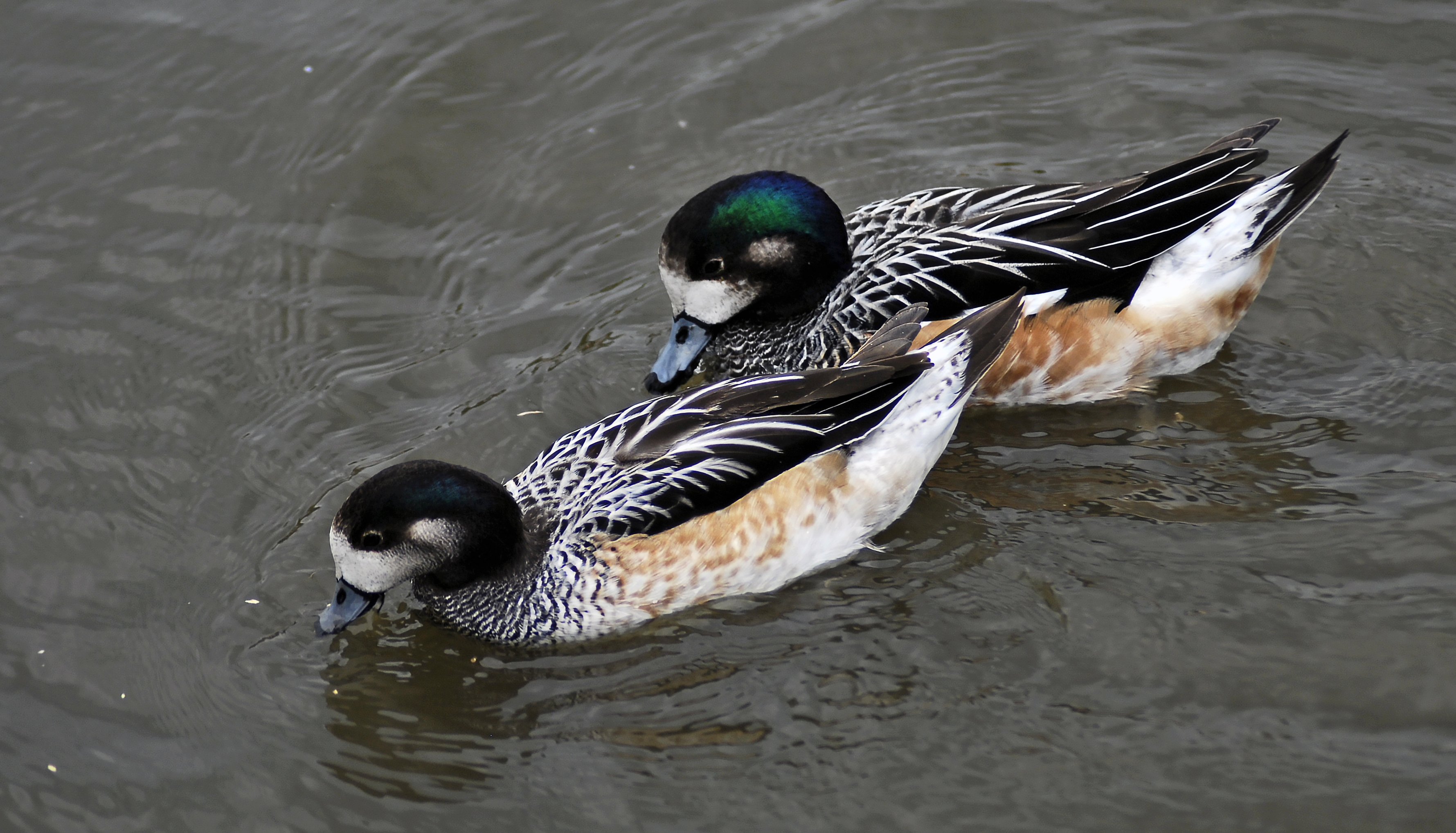 Pair of Chilöe wigeon (Anas sibilatrix)